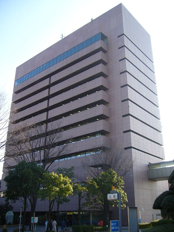 Maebashi City Hall in Gunma Preferture, Japan